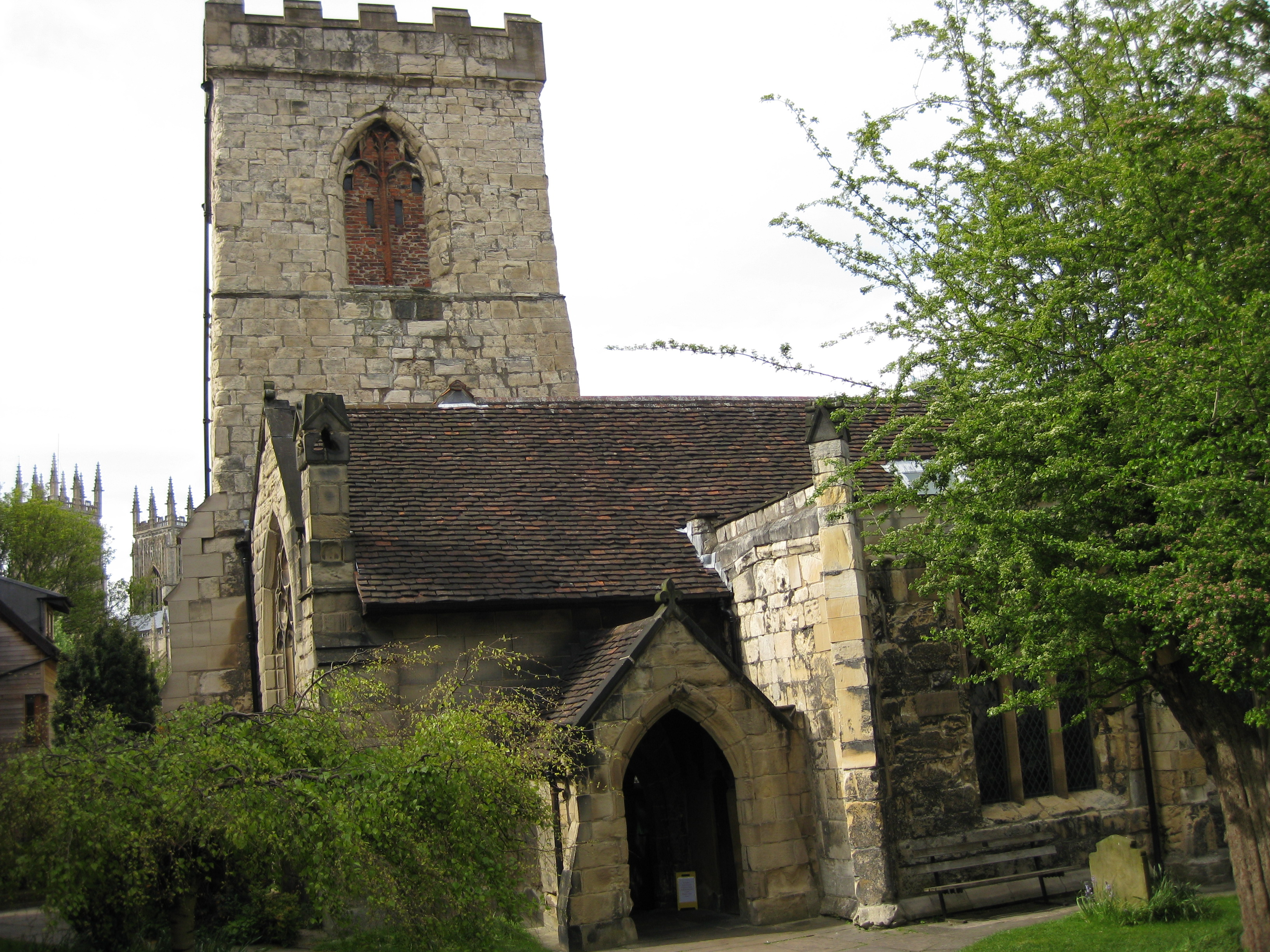 Holy Trinity Church, Goodramgate, York, in May 2009